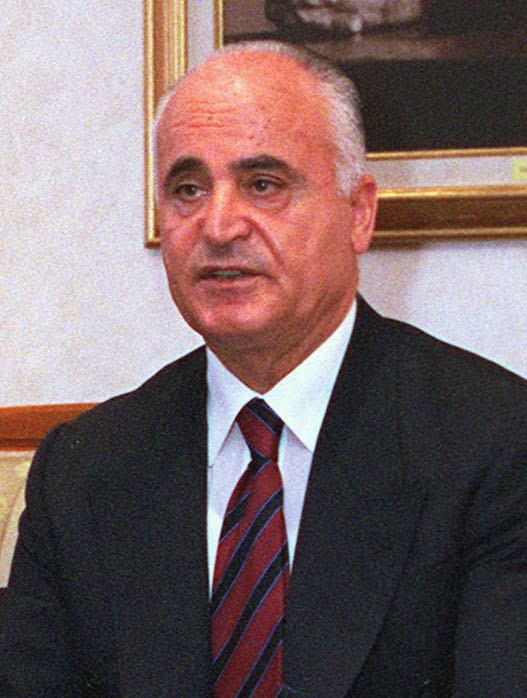 Secretary of Defense Donald H. Rumsfeld (left) and Turkish Minister of Defense Sabahattin Cakmakoglu hold a media availability at the conclusion of their meetings in Ankara, Turkey, June 4, 2001. The two defense leaders discussed a range of regional security issues of interest to both nations.